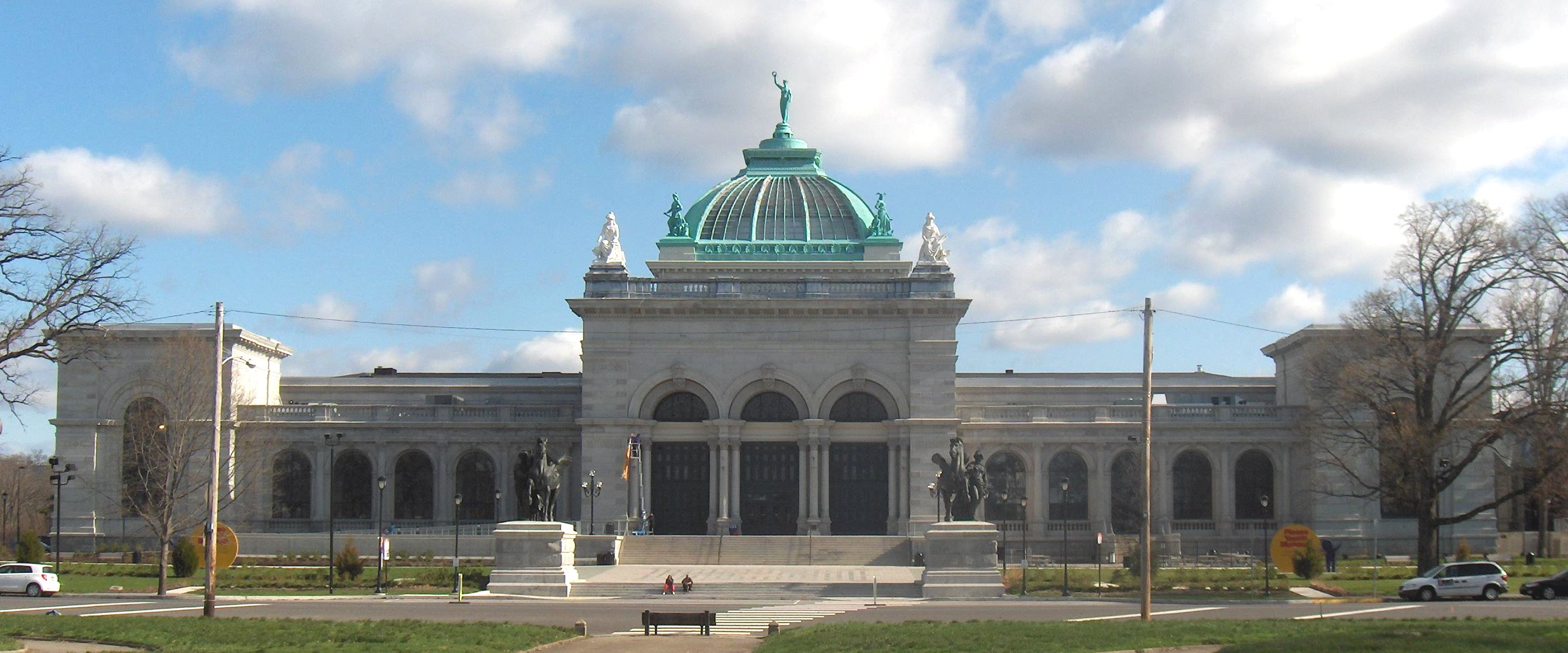 Memorial Hall, 4231 Avenue of the Republic, Philadelphia, PA 19131, Centennial Exposition, 1876, now home to the Please Touch Museum. View from south of the Avenue of the Republic, looking north